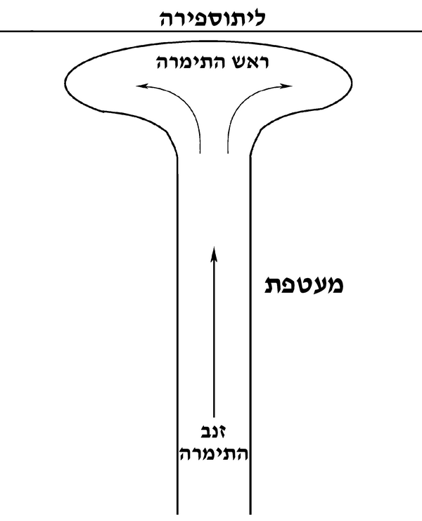 Mantle plume, Hebrew, based on file:Plume-schematisch.png